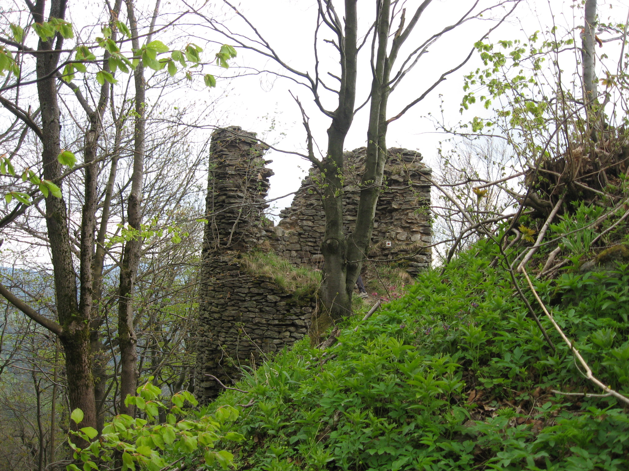 Castle (ruin) Starý Herštejn